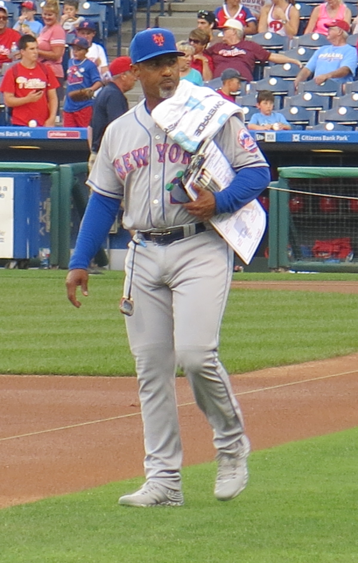 Ricky Bones of the New York Mets, July 16, 2016.